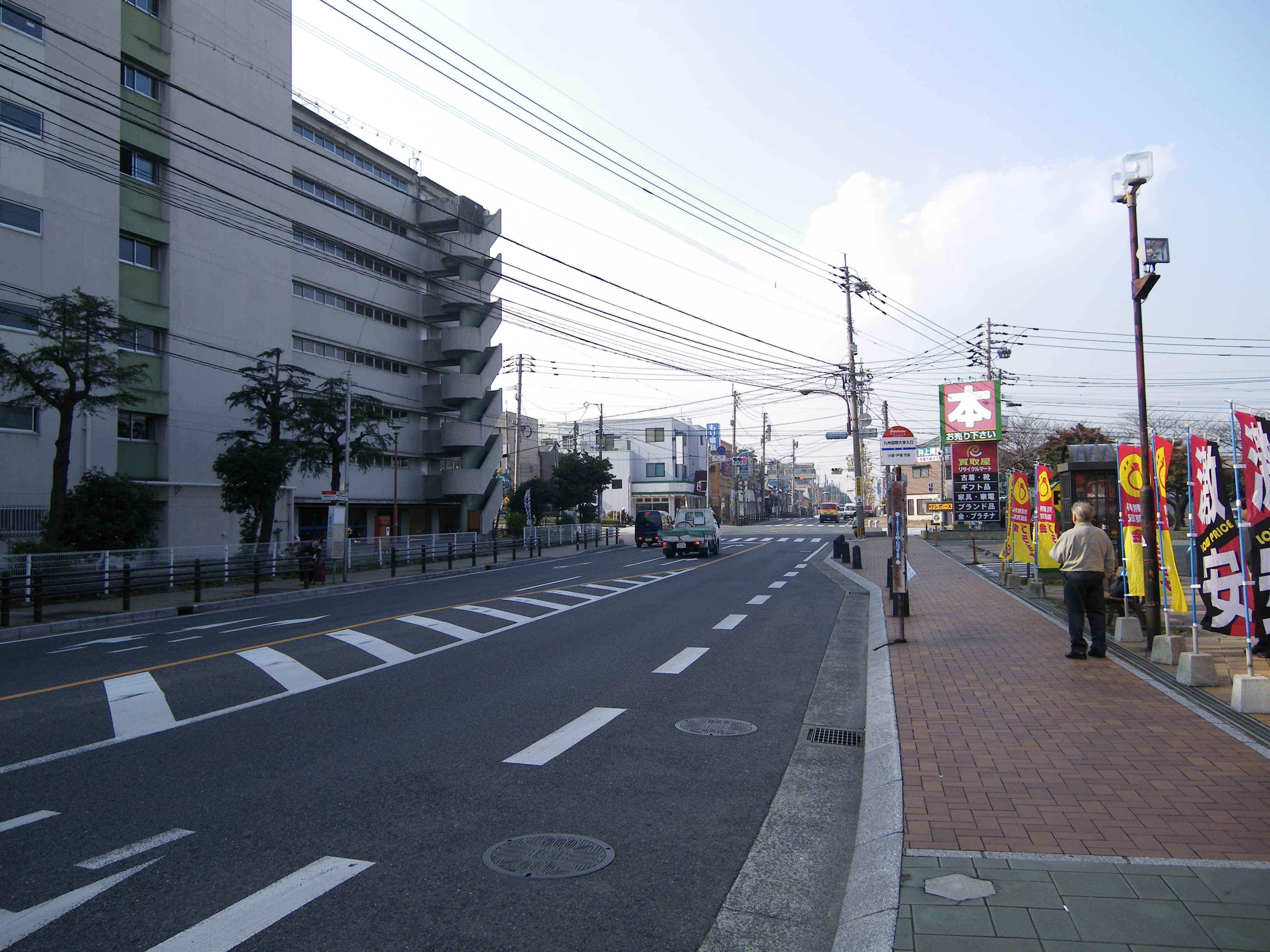 This street is located in Hirano,Kitakyushu.